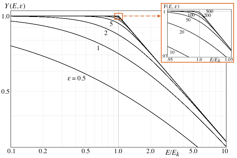 Examples of the “knee” shaping functions illustrating the change of the spectral slope at different sharpness parameters of the “knee”.